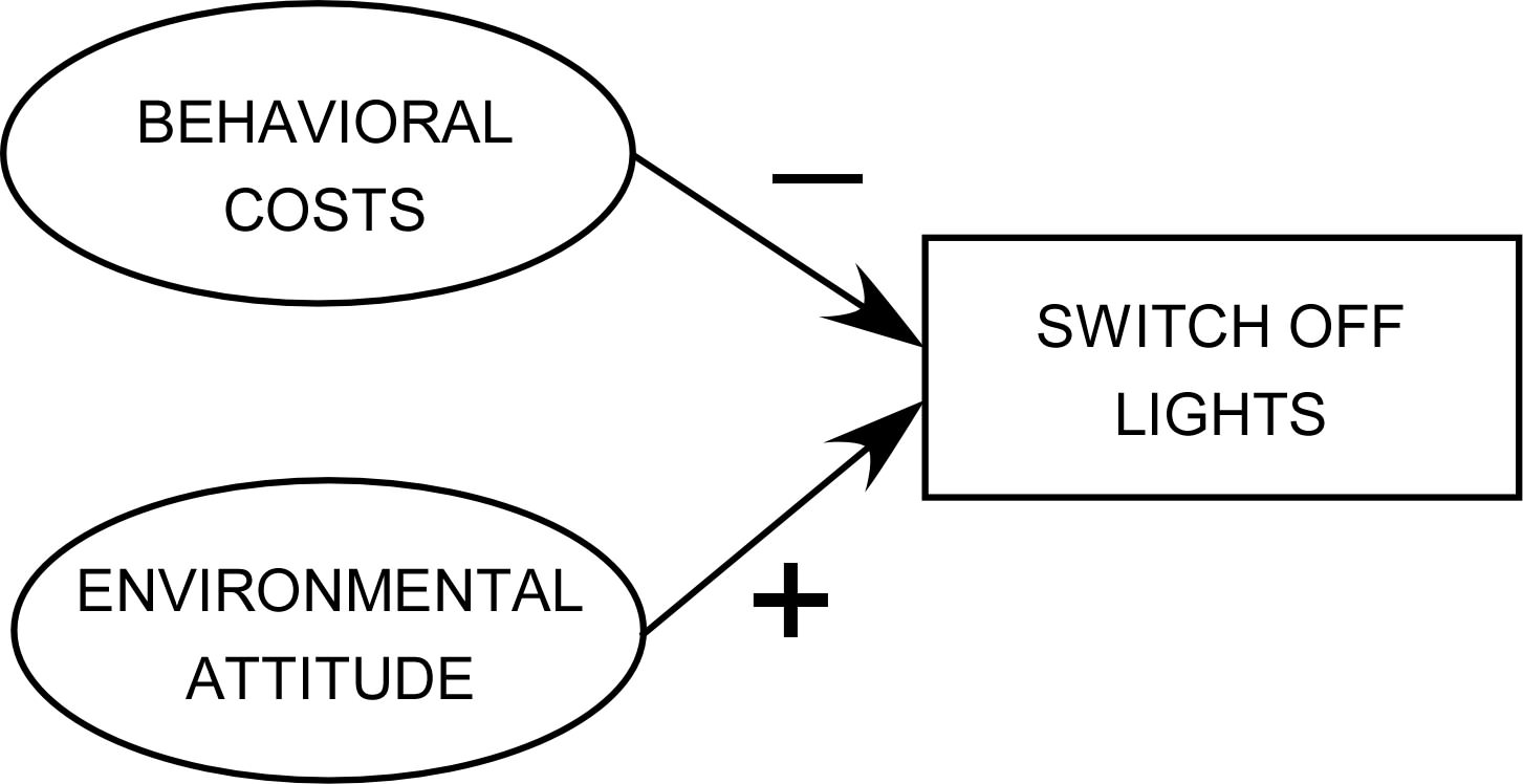 In the Campbell Paradigm, behavior (here: pro-environmental behavior) is a function of behavioral costs and environmental attitude.